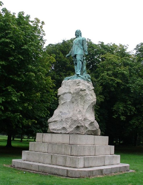 Oliver Cromwell. This picture is of the statue of Oliver Cromwell opposite Wythenshawe Hall at SJ816898.